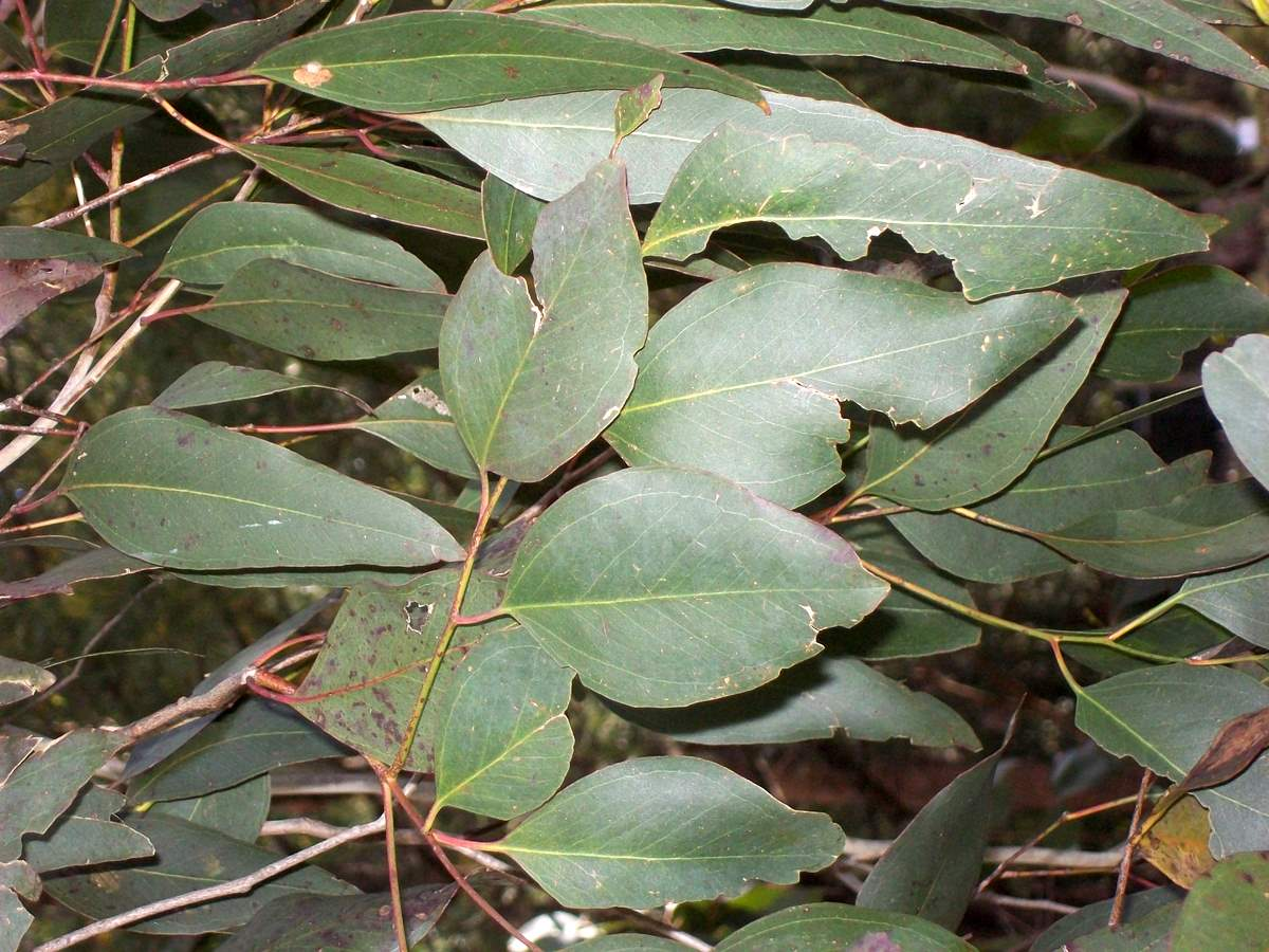 Eucalyptus bosistoana at Batemans Bay